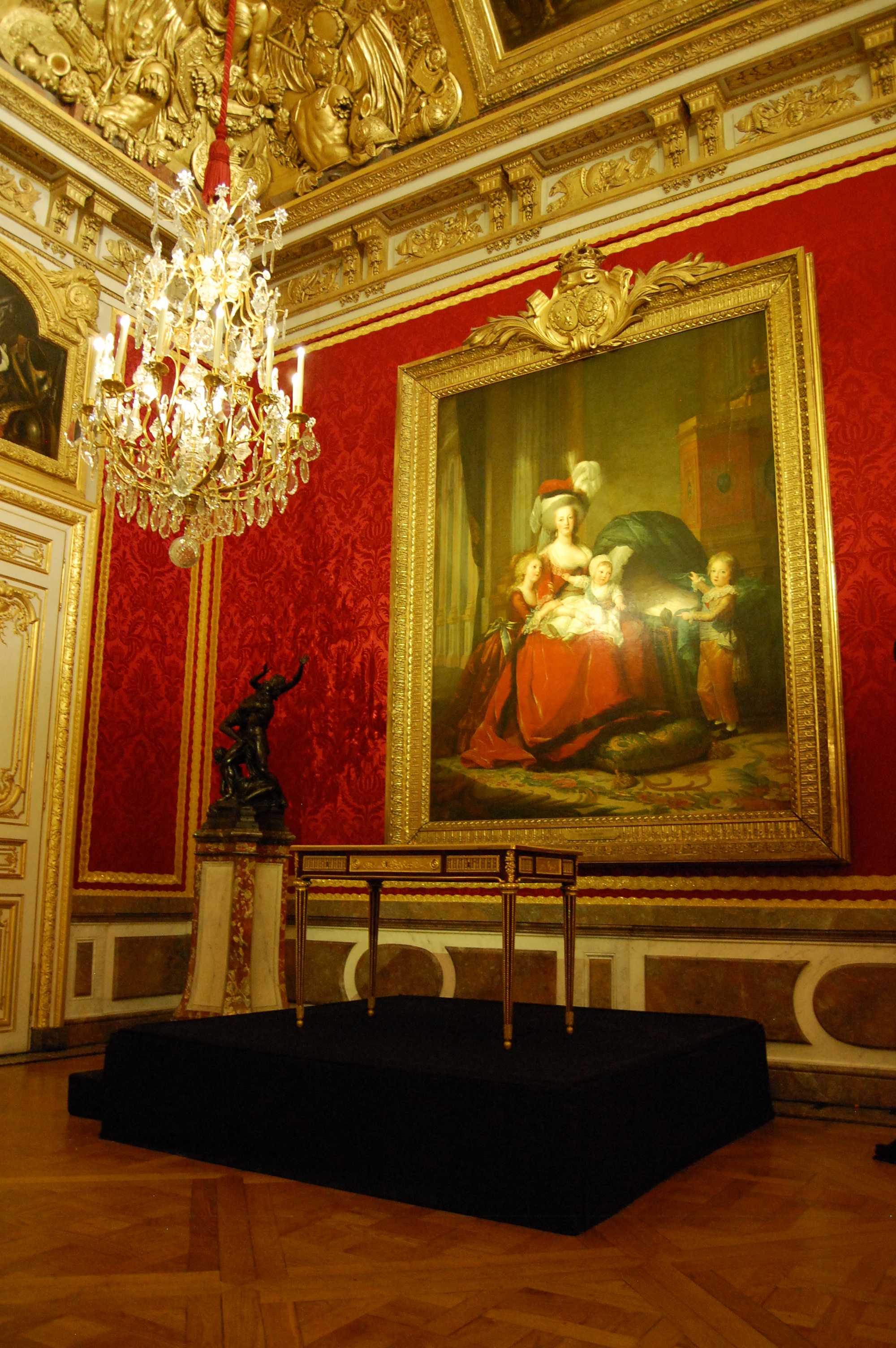 Jean-Henri Riesener (German-born French, 1734-1806): Bureau de la reine (desk of the queen) exposed in Salle du Grand Couvert, Palace of Versailles in 2011